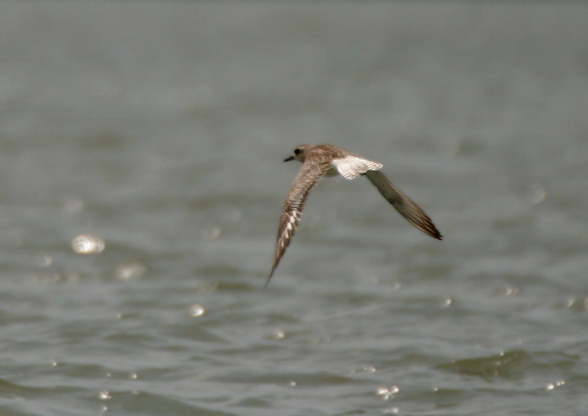 Grey Plover or Black-bellied Plover Pluvialis squatarola in Krishna Wildlife Sanctuary, Andhra Pradesh, India.